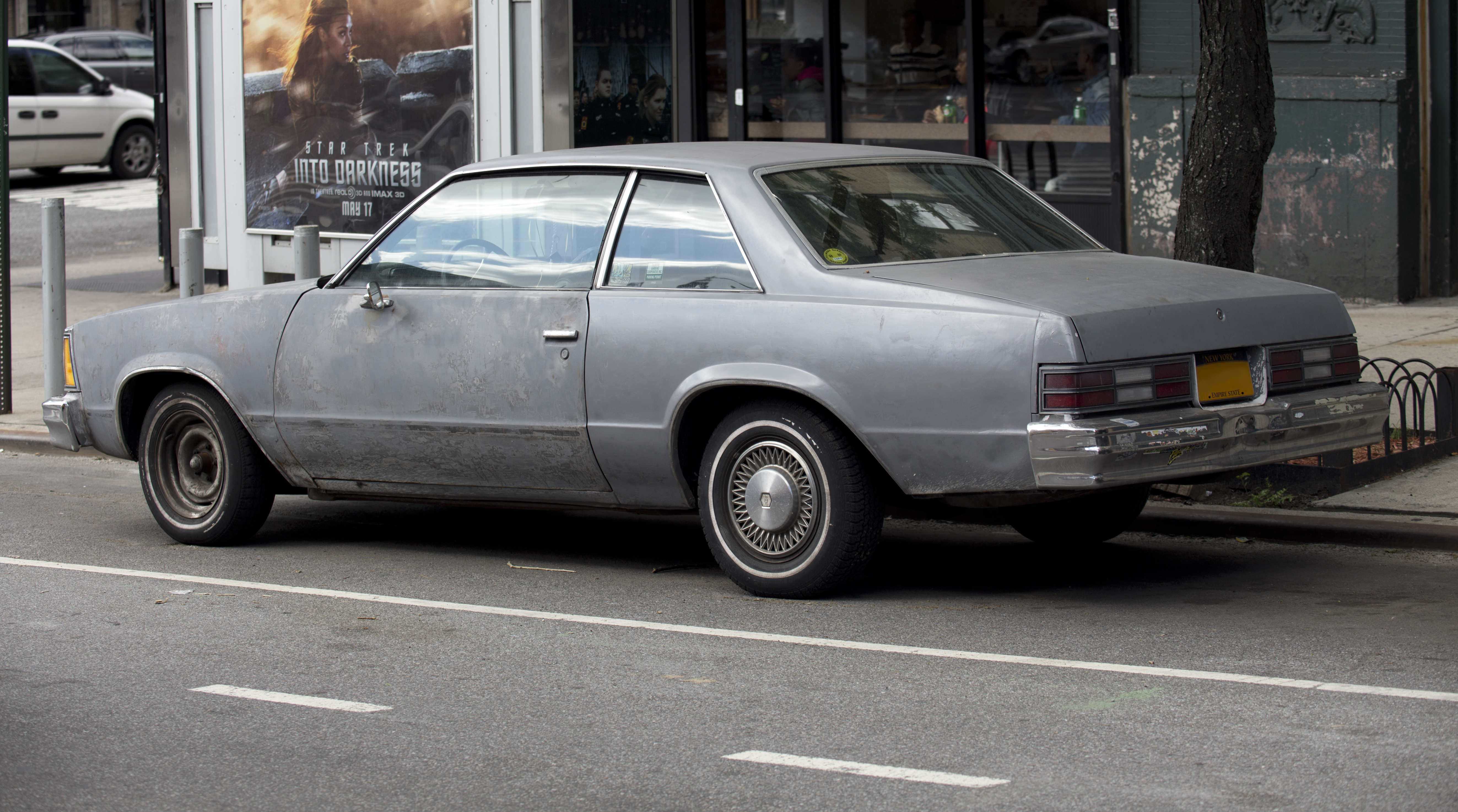 Pretty rough what with the primer and various missing pieces. The owner sometimes works on it out in the street.